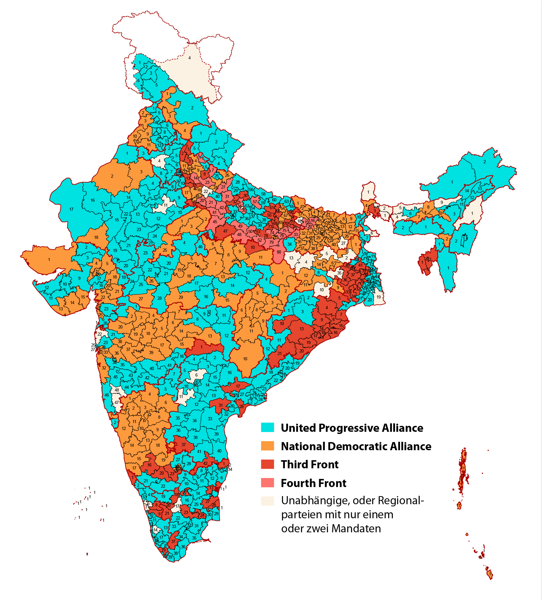 Results of the Indian general election, 2009 according to constituencies and party coalitions.